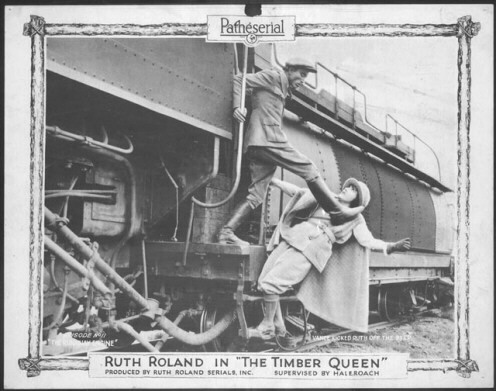 Ruth Roland in the American film serial The Timber Queen (1922). Episode No. 11 "The runaway engine" : Vance kicked Ruth off the step. [1]